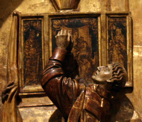 Gothic-Renaissance Triptych from Pławno (Łódź voivodship, Poland), nowadays in National Museum in Warshau